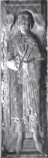 Epitaph of Widukind in town of Enger, District of Herford, North Rhine-Westphalia, Germany.